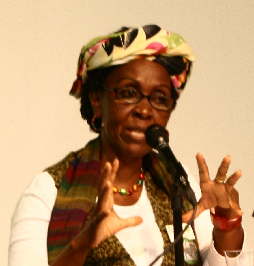 Elieshi Lema, at Göteborg Book Fair.